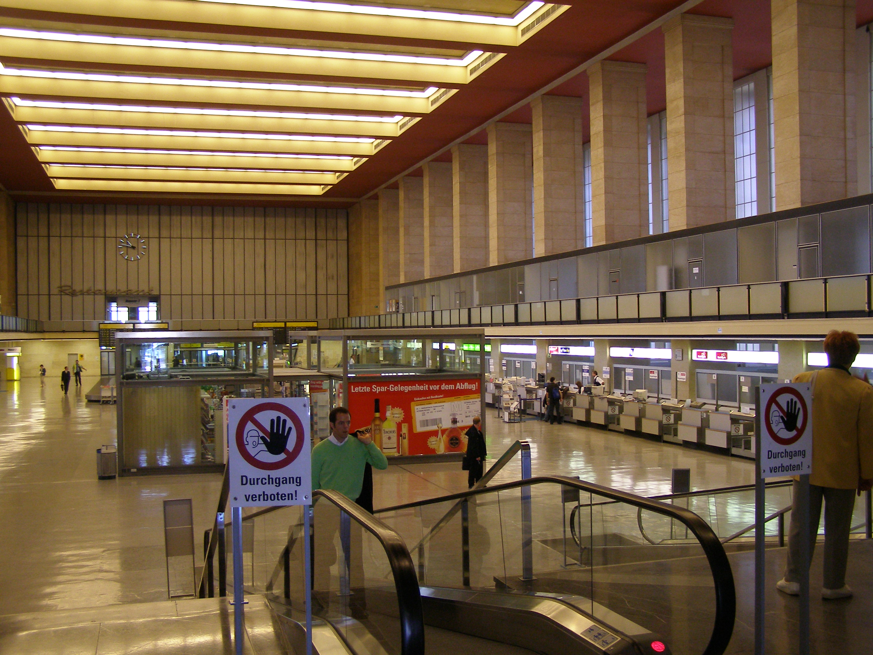 Berlin Tempelhof Airport. Main Hall.